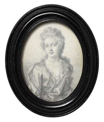 Thomas Forster, worked 1690-1717, Portrait of Lady Anne Churchill, Dated 1700, Graphite on vellum, Inscribed by the artist lower right in Latin 'Forster /Drew this' and dated '1700' Museum no. P.20-1910, Bequeathed by Captain H. B. Murray. Lady Anne Churchill (1683-1716) was the daughter of John Churchill, 1st Duke of Marlborough. This miniature dates from the time of her marriage to Charles Spencer, 3rd Earl of Sunderland.